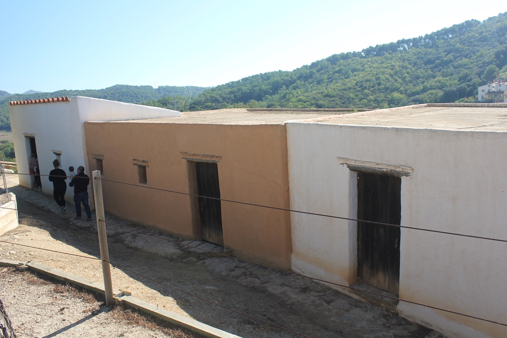 Poblat iberic Ca n'Oliver: Cases reconstruïdes